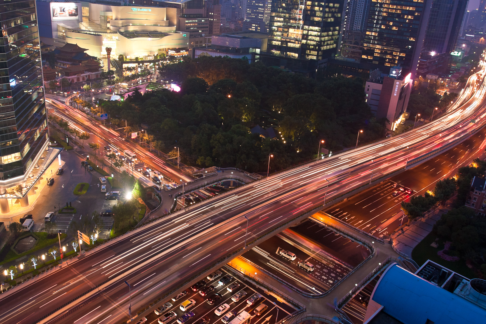 Shanghai, China Shot hand-held (braced against the window frame) from my open 22nd floor hotel window.